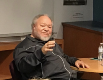 Actor Stephen McKinley Henderson presenting at Amherst Central High School in March 2018